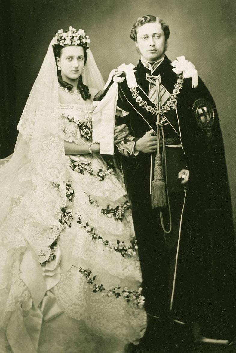 The wedding of Prince Albert Edward (later King Edward VII) and Alexandra of Denmark, London, 1863